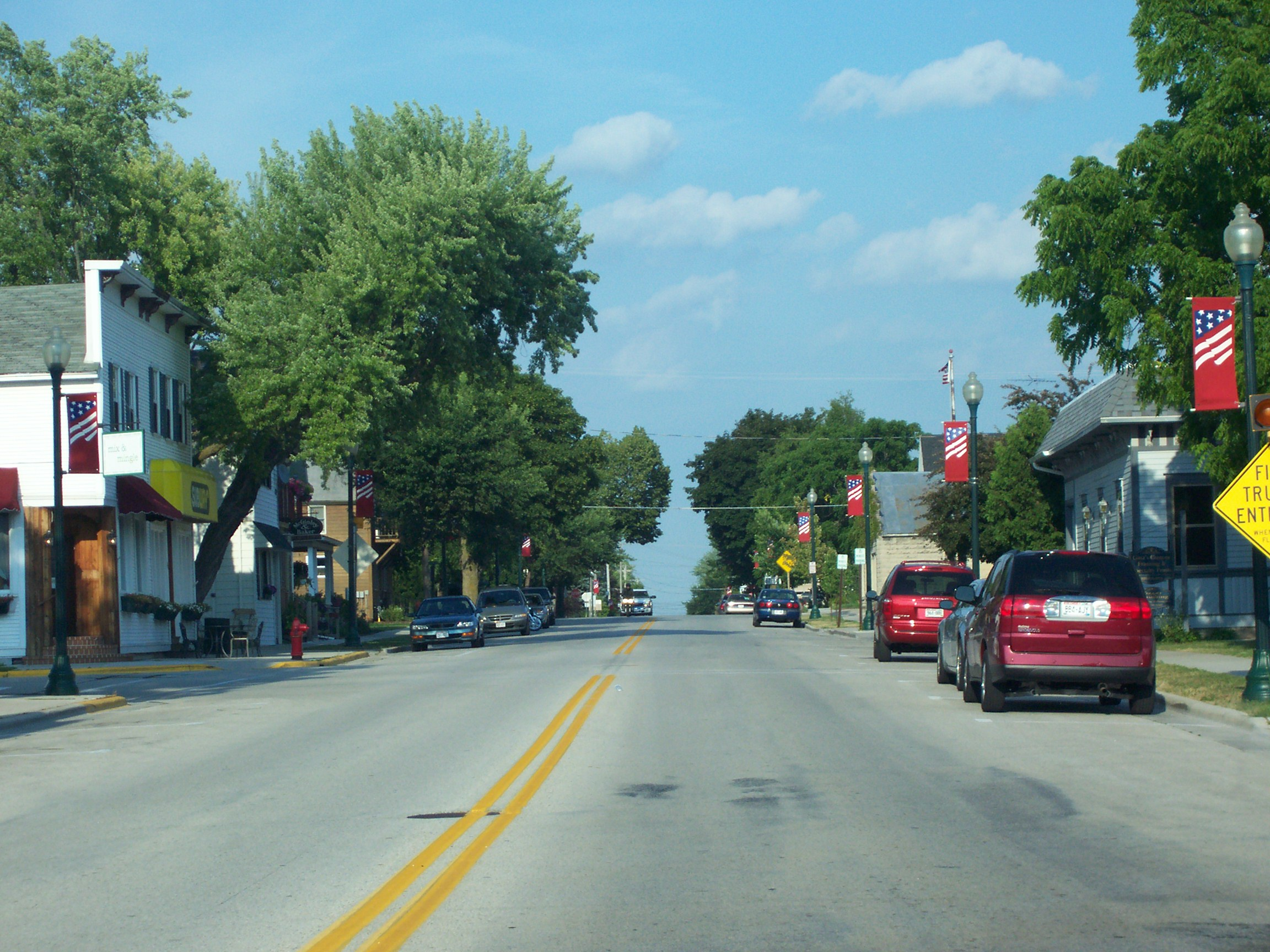 Looking east at downtown Elkhart Lake, Wisconsin, USA while traveling on County Highway J. Located on the Kettle Moraine Scenic Drive.